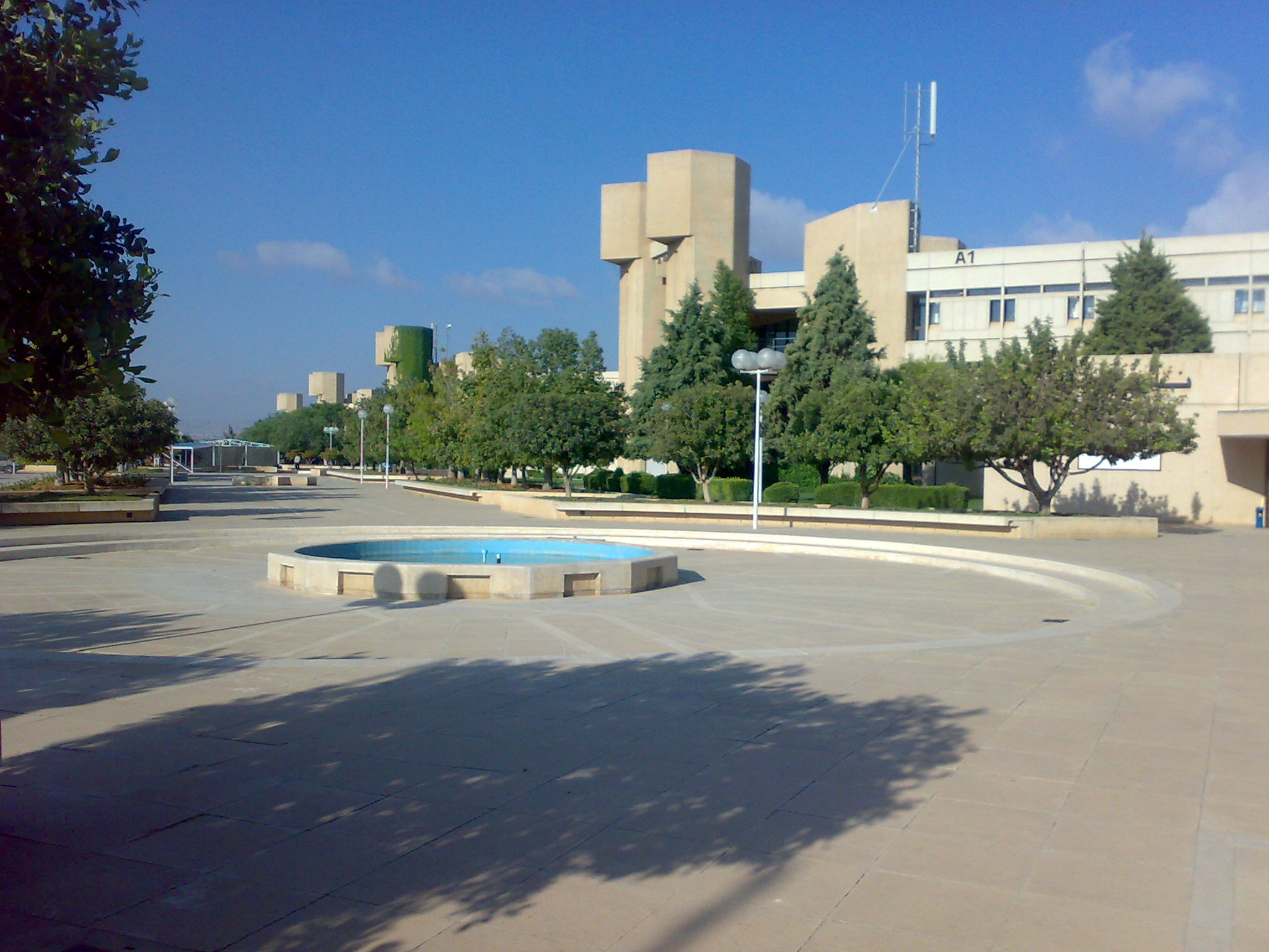 JUST - Jordan University of Science and Technology.